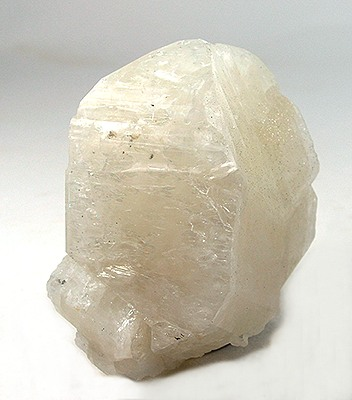 Orthoclase Locality: Zinnenthal, Switzerland Size: small cabinet, 5.4 x 3.9 x 3.2 cm Adularia (twinned) This orthoclase var. adularia crystal is large and fine for the species. The almost white color, high luster, and translucence really stand out making this piece a winner. It is twinned down the middle (more visible in person), and also has better lustre in person.